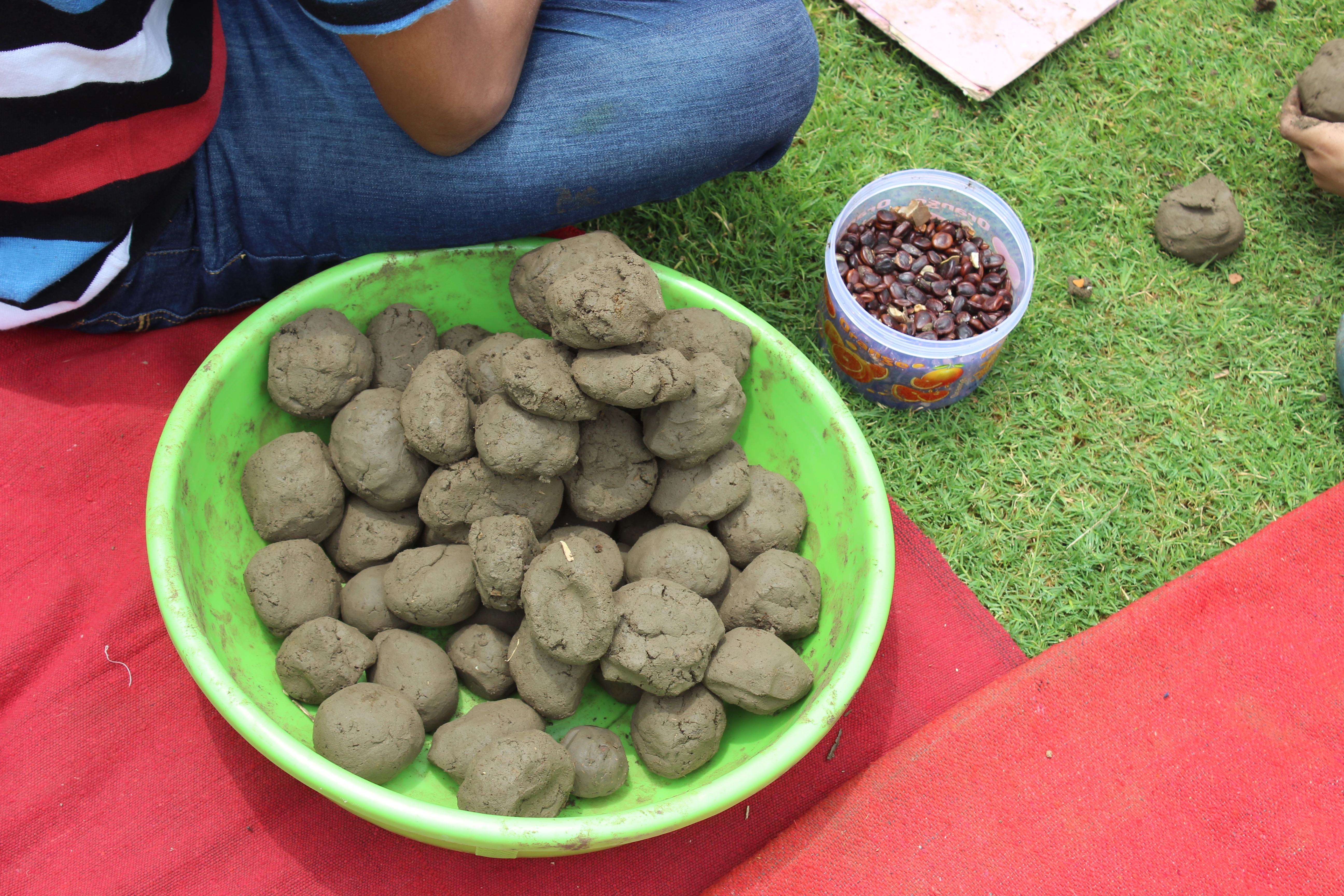 Activities for making Mud Seed ball in Bhopal